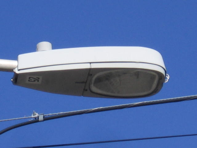 History of street lighting: Hubell RMC full cutoff (50–250 watts)